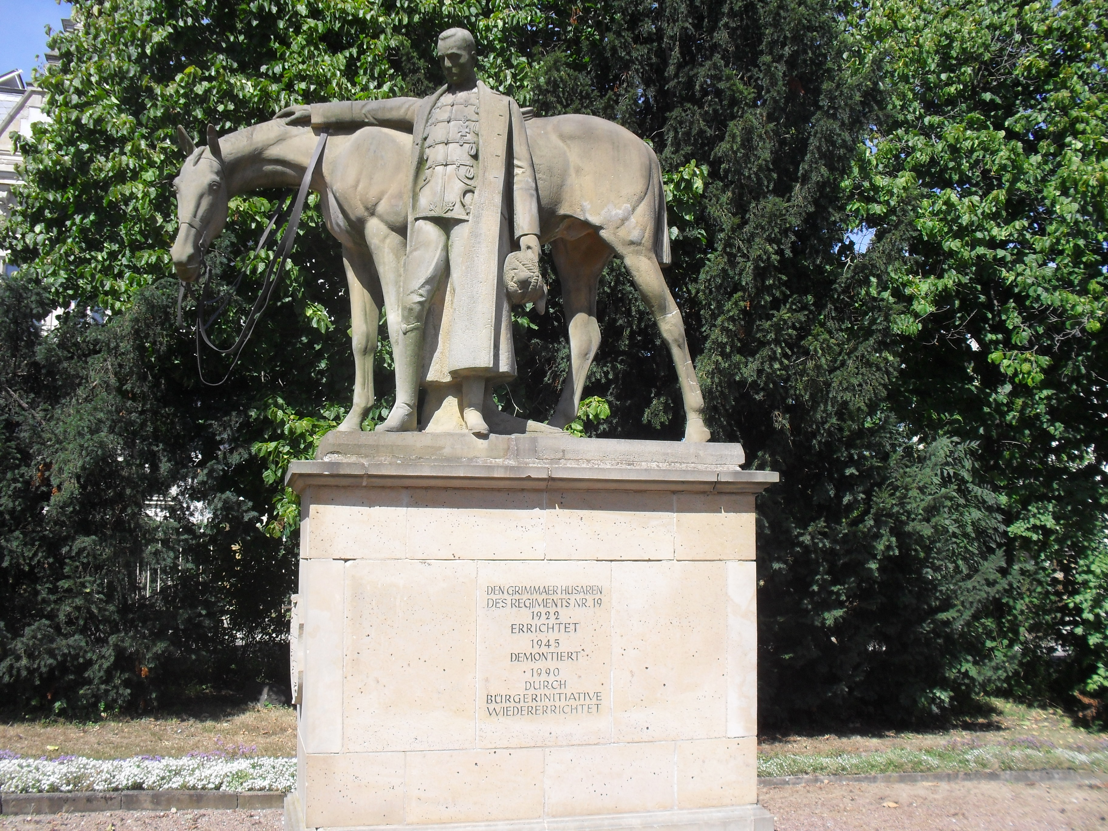 War memorial, Grimma